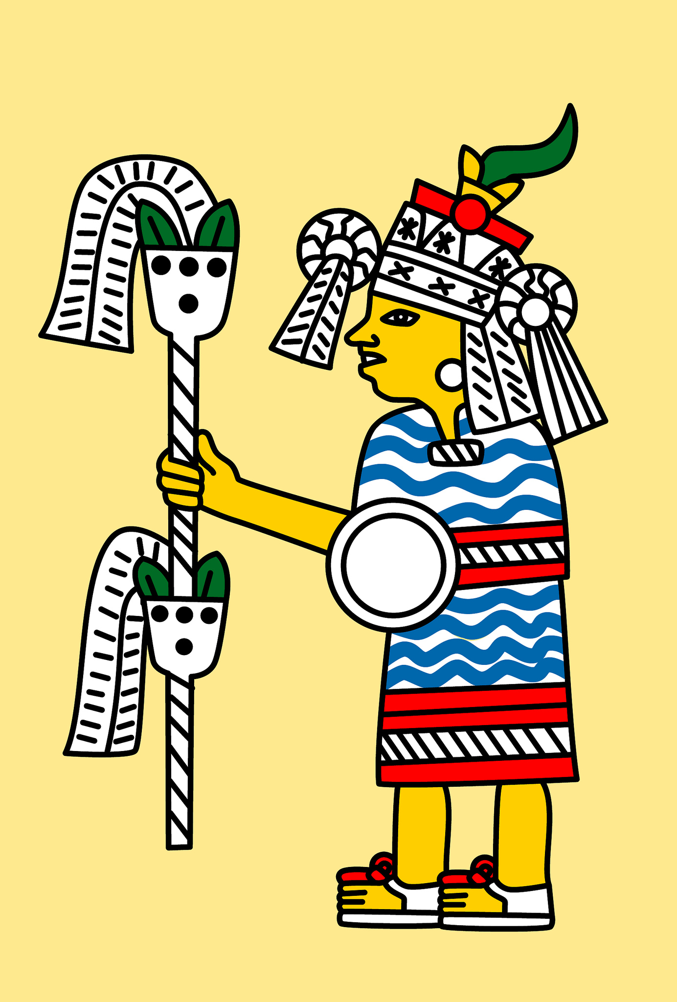 Huixtocihuatl descrito en el códice.